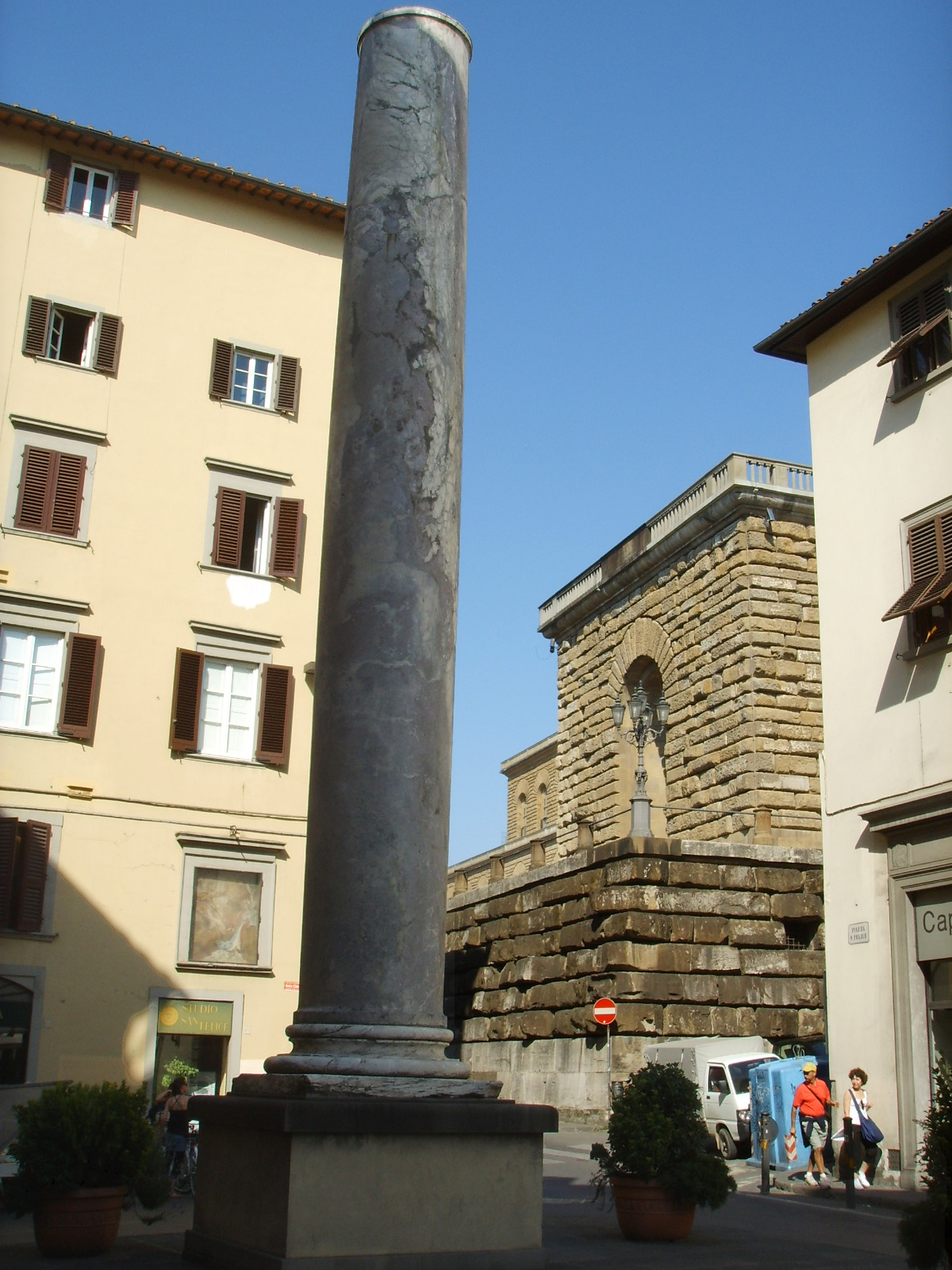 San Felice column in Florence, Italy